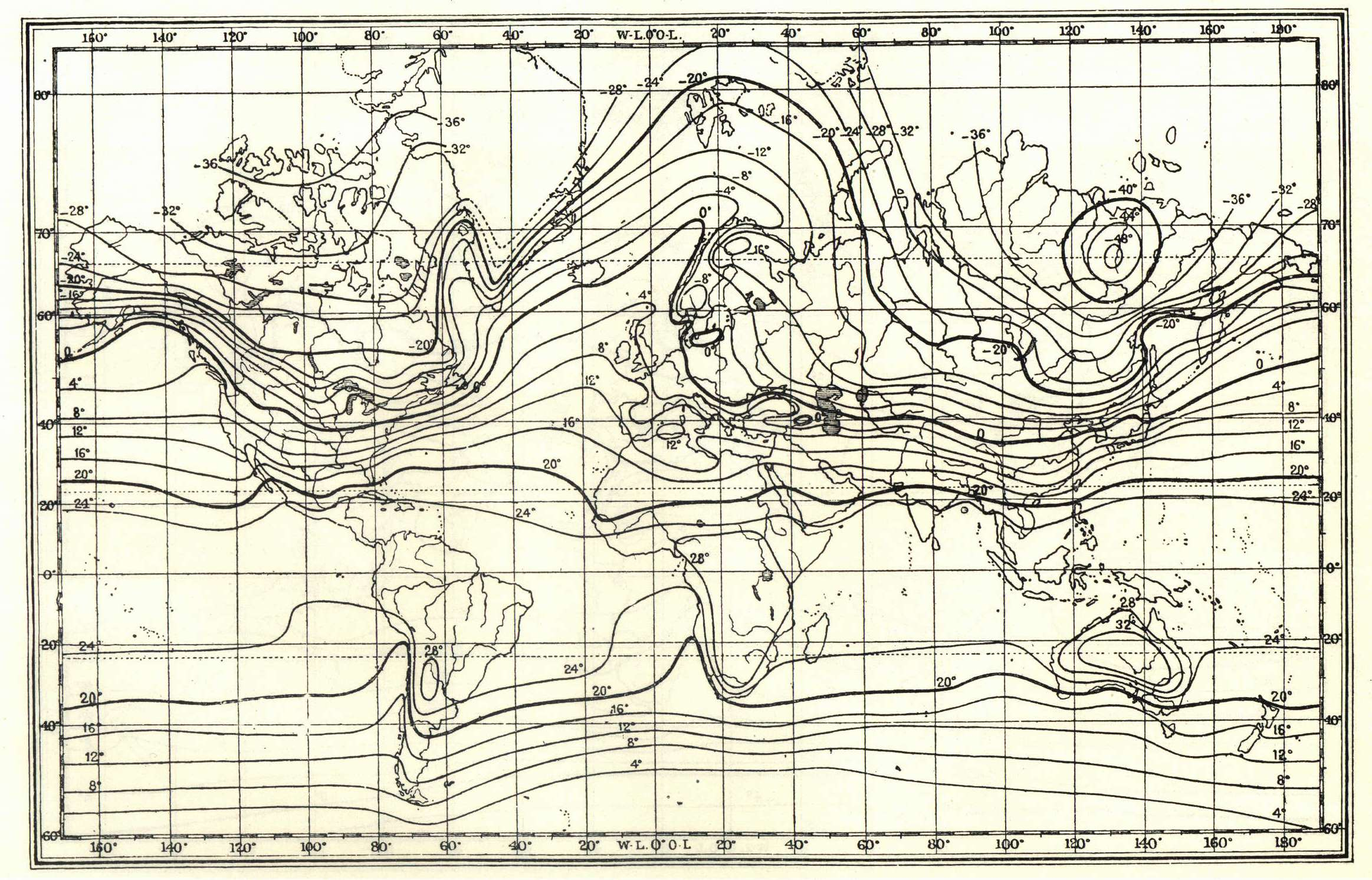 This is a map showing isotherms in January. View over the world from 82° North to 60° South with temperature in Celsius. Image from Nordisk familjebok in according to "Handbuch der Meteorologie" by J. Hanns.